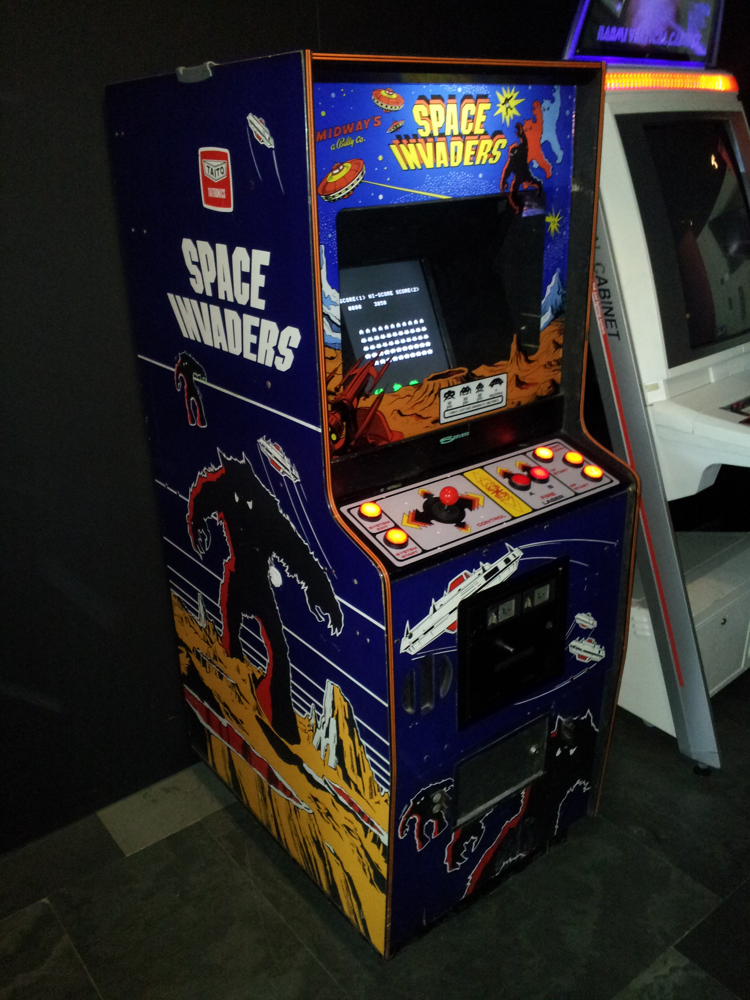 Space Invaders